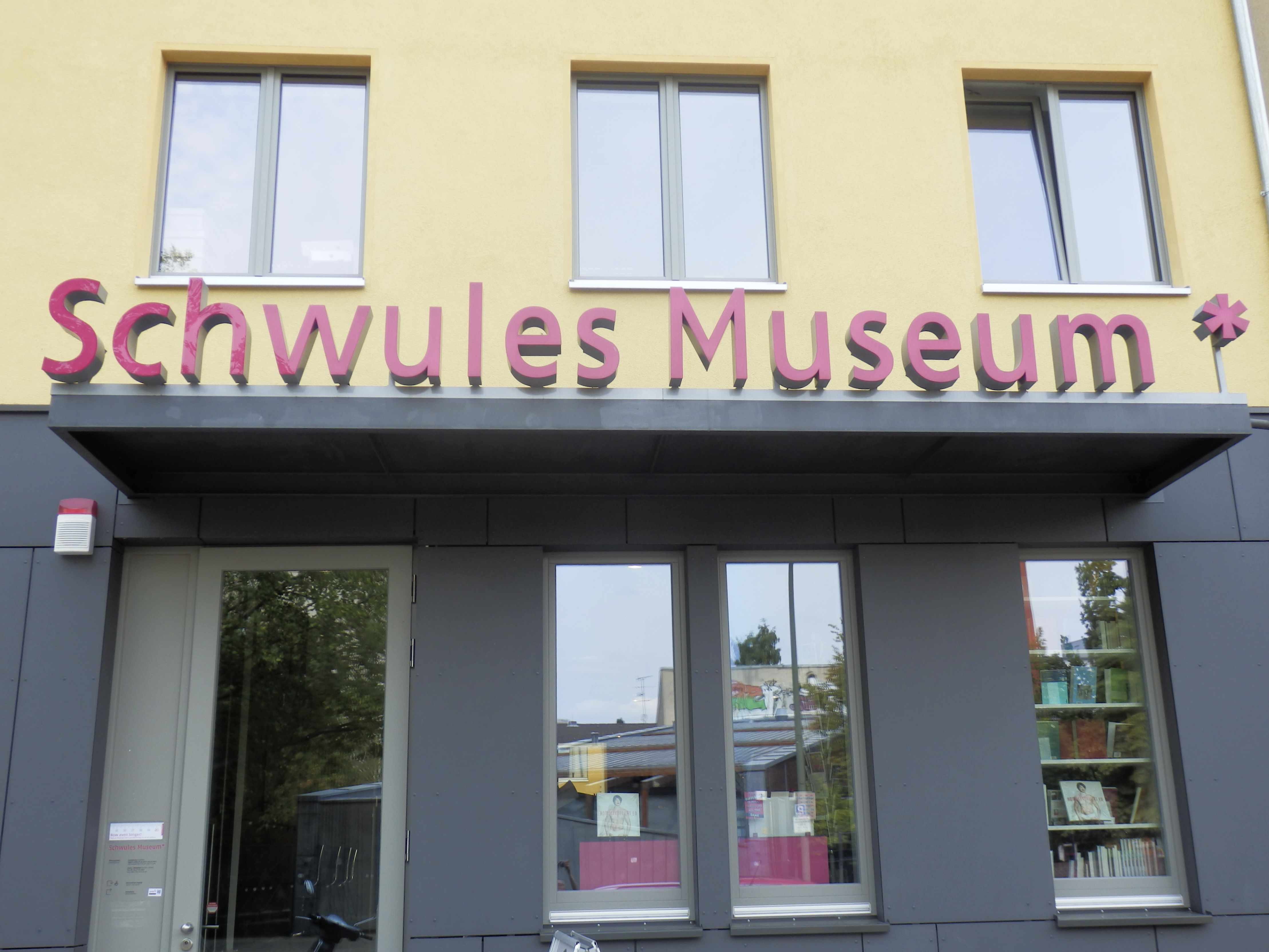 Schwules Museum* House